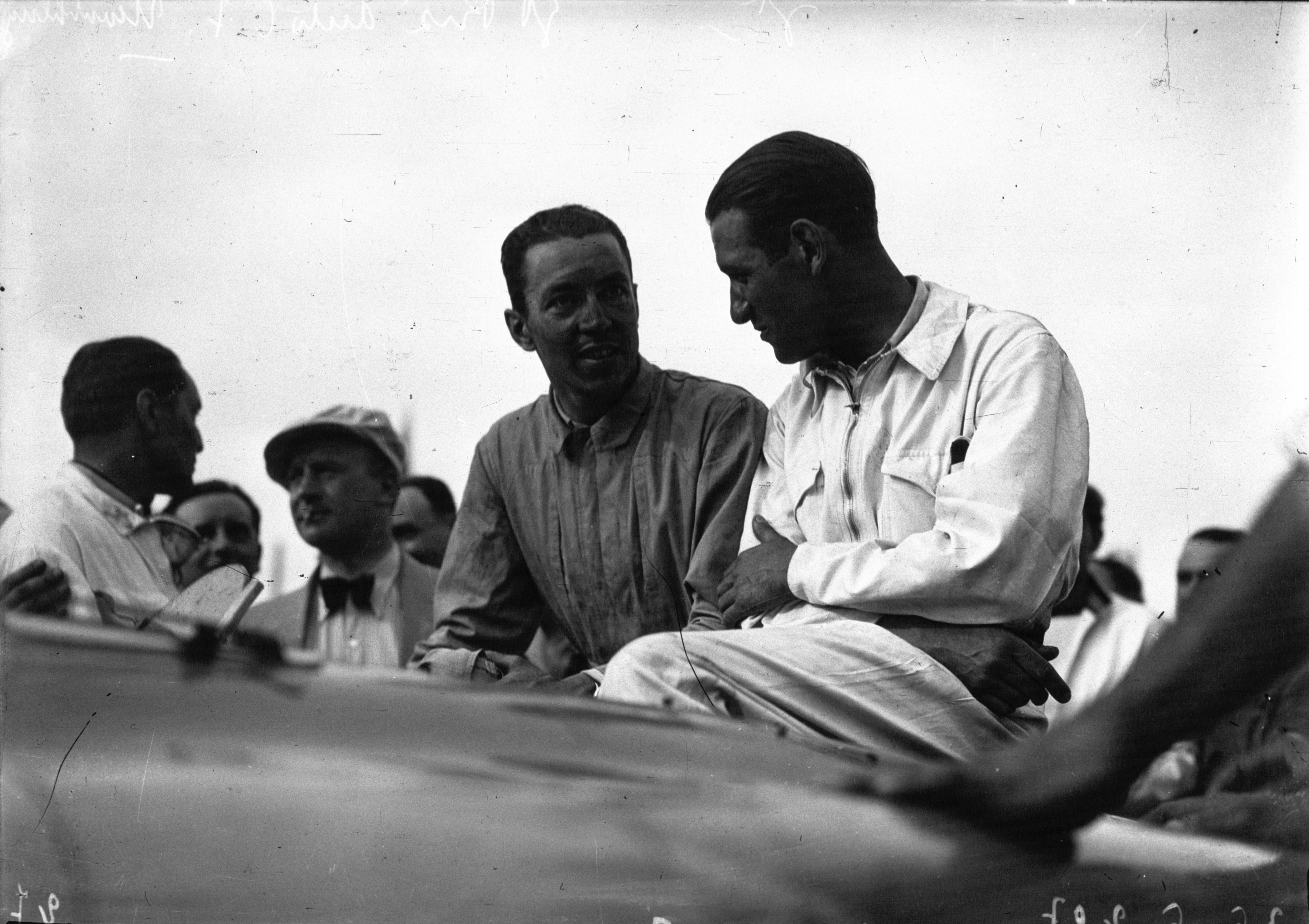 Raymond Sommer and Jean-Pierre Wimille at the 1936 French Grand Prix